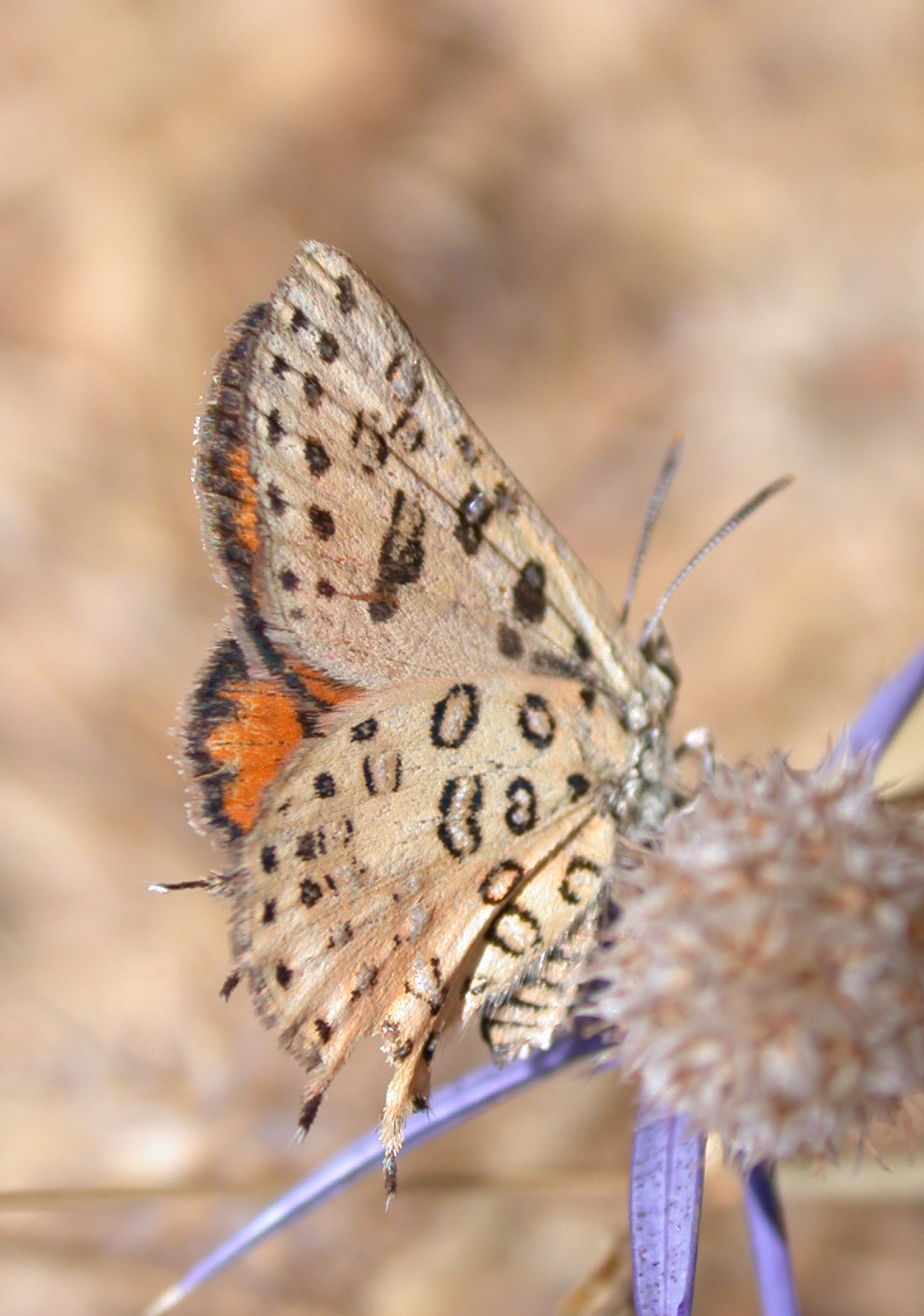 Cigaritis cilissa (כחליל הגליל), Mount Meiron Nature Reserve, Upper Galilee, Israel, June 30, 2006.